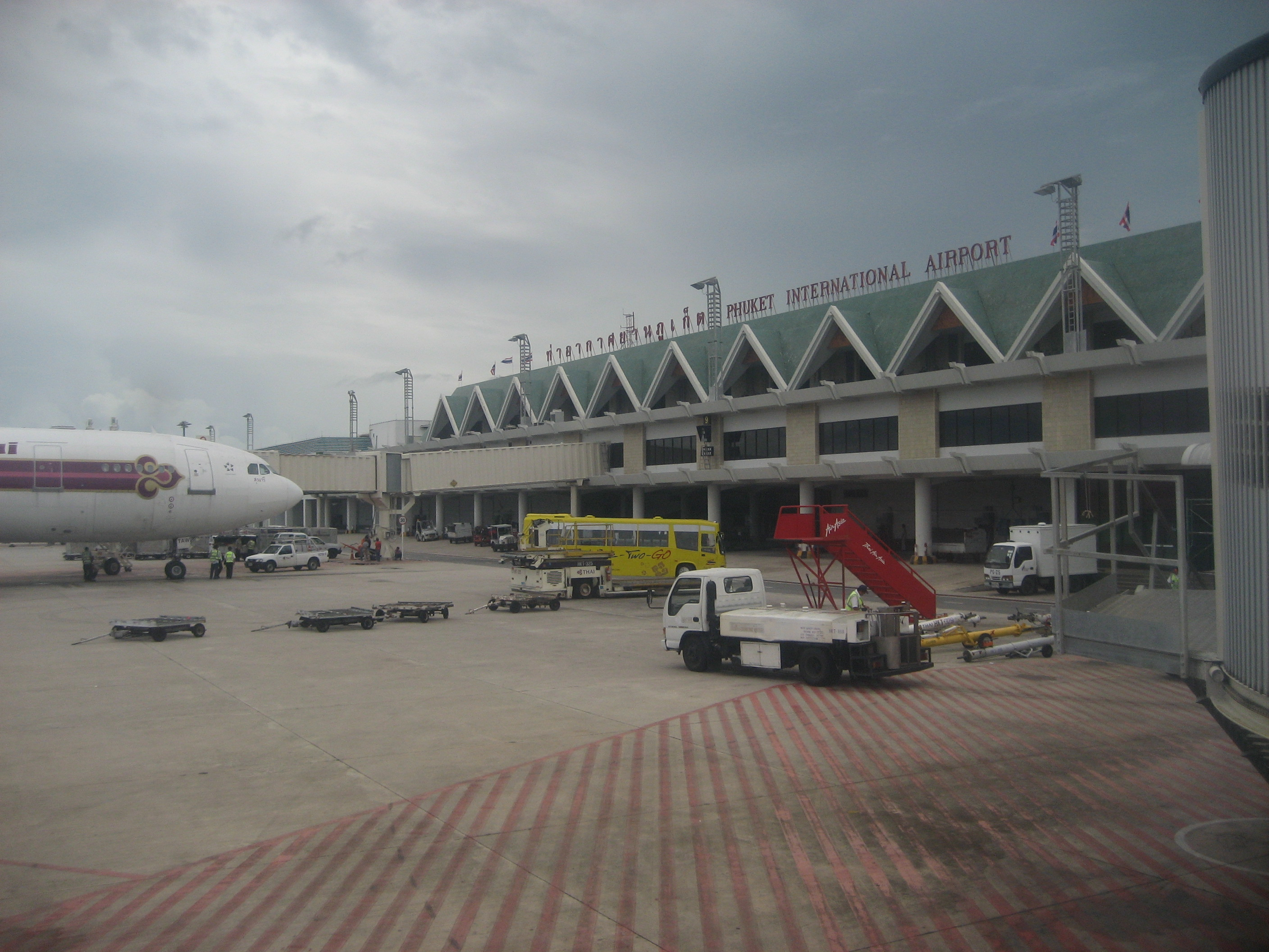 Image of Phuket International airport